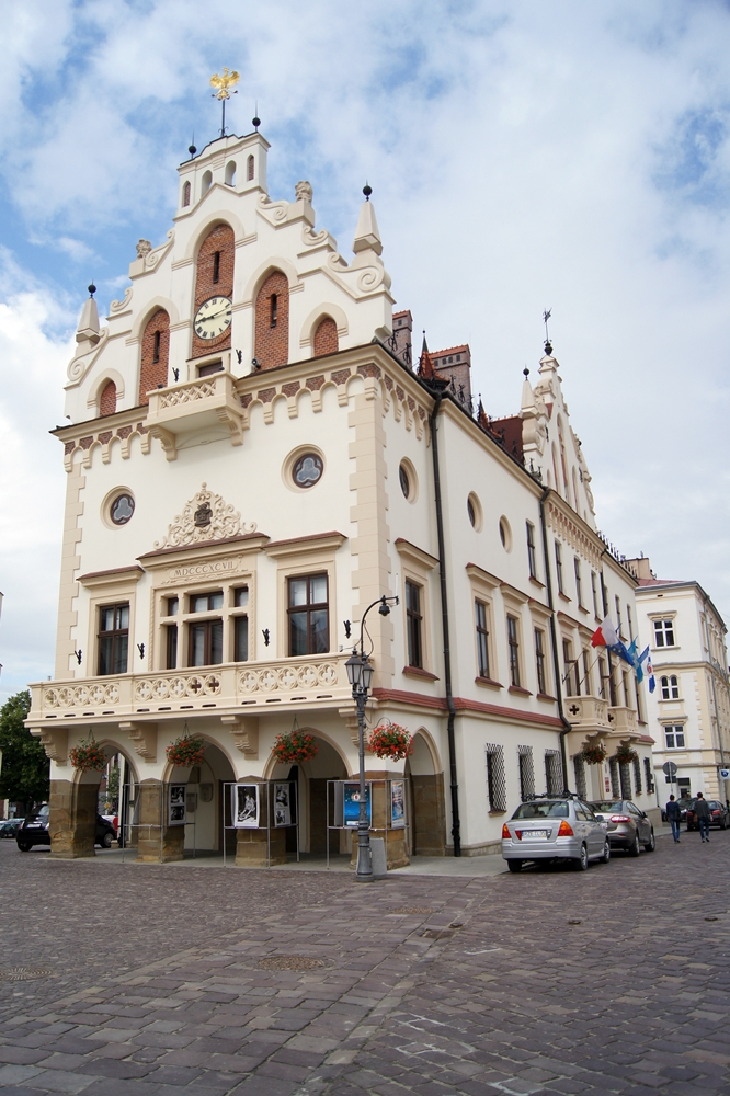 Ratusz w Rzeszowie